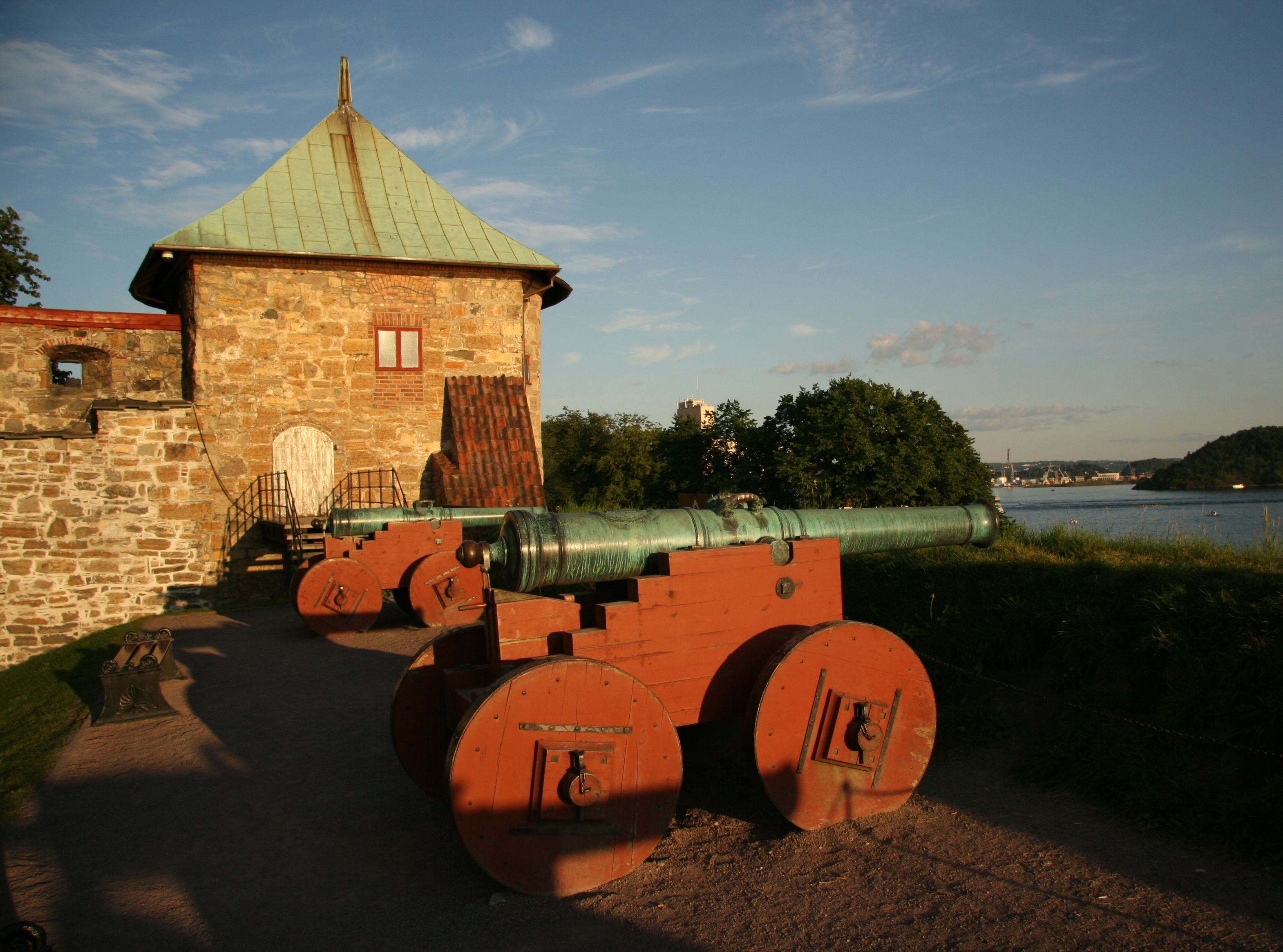 Akershus Castle. Oslo, Norway